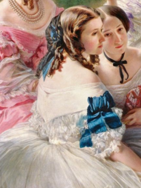 Portrait of Jane Thorne, by Franz Xaver Winterhalter (detail of "The Empress Eugenie Surrounded by her Ladies in Waiting").